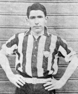 Argentine footballer Mariano Reyna, when playing for Alumni.